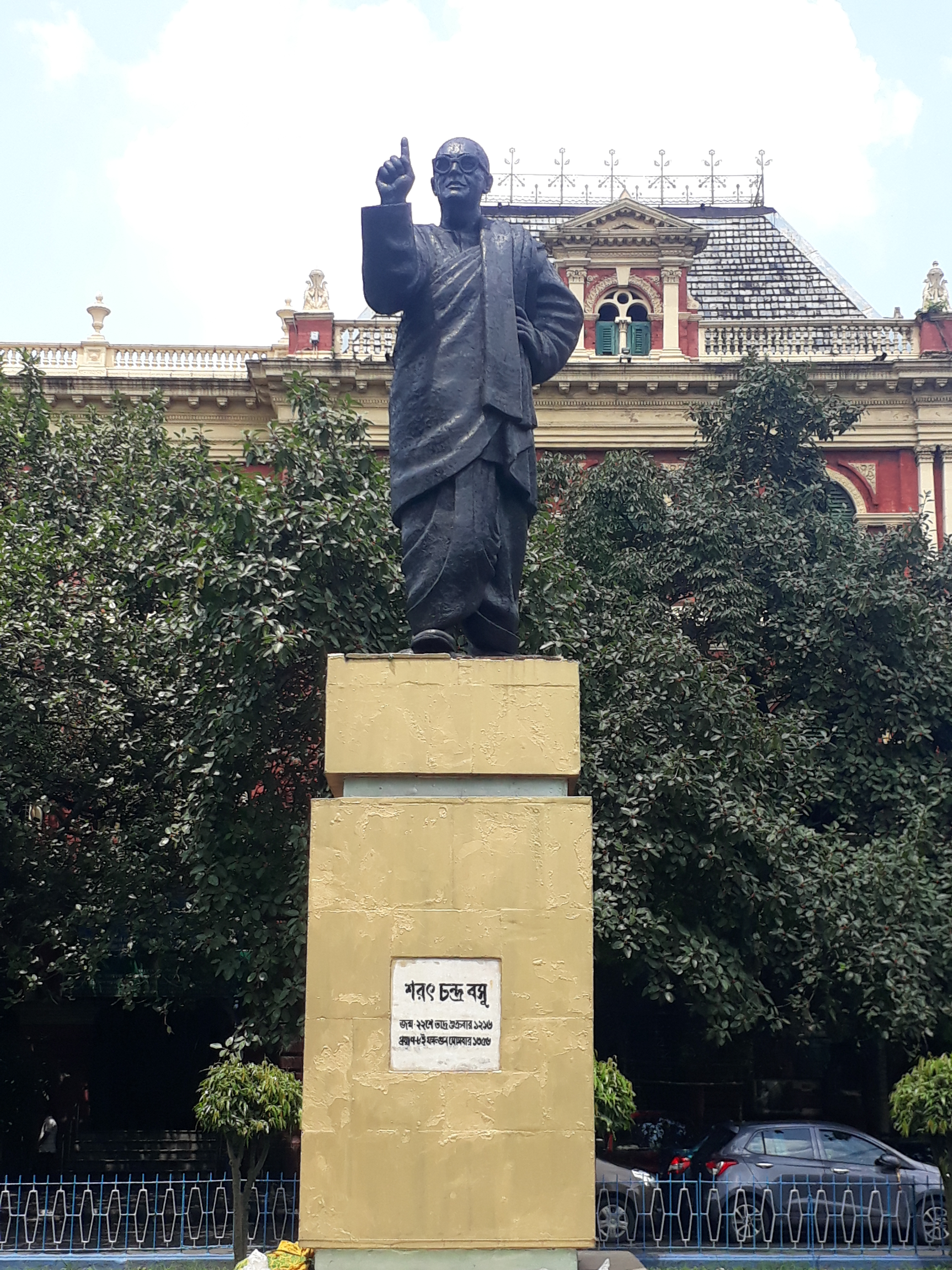 Statue of Sharat Chandra Bose in Kolkata between Rajbhawan and High Court.